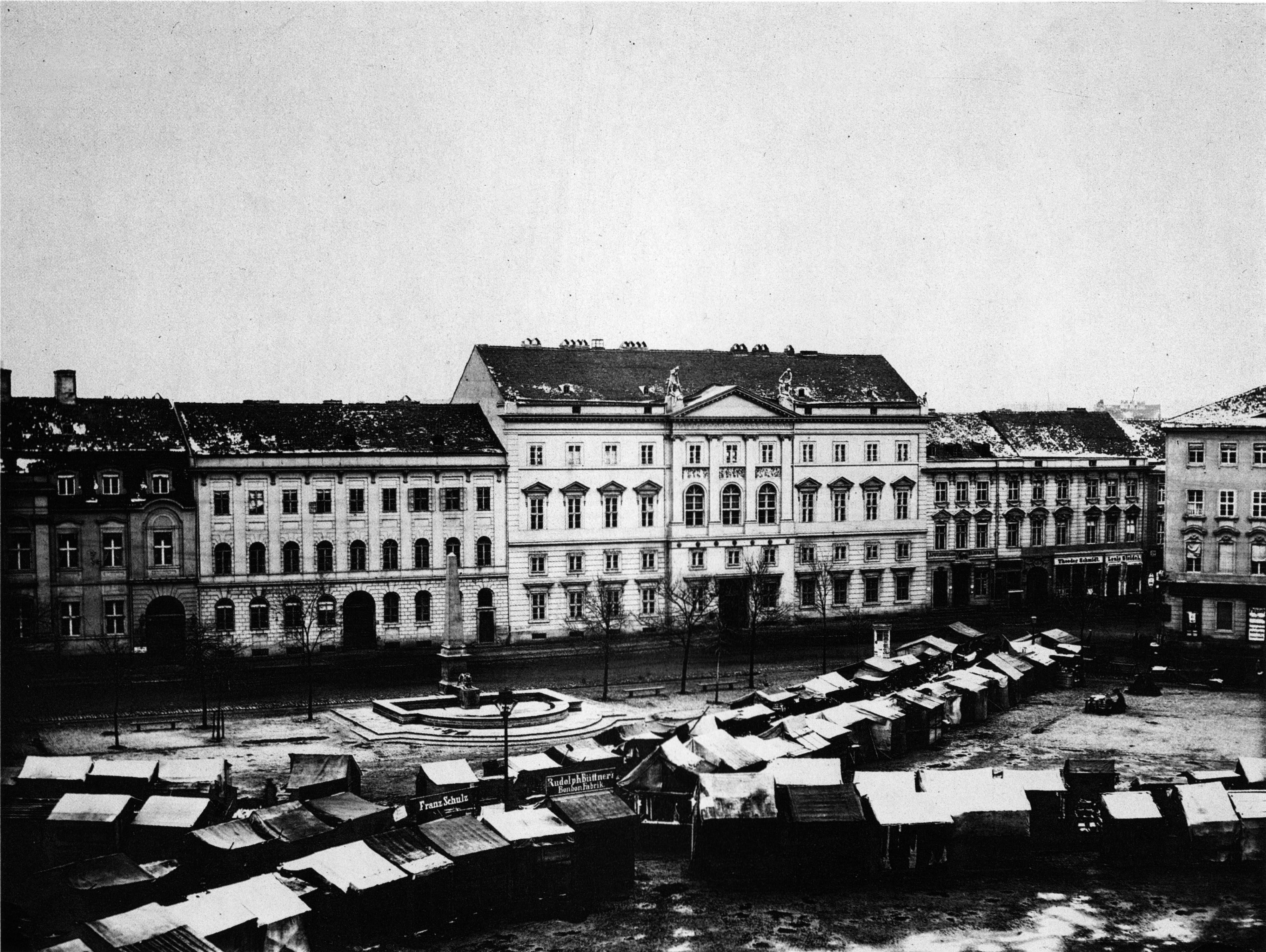 The former Dönhoffplatz at Leipziger Straße, Berlin. At its center is a Brandenburgian milestone.